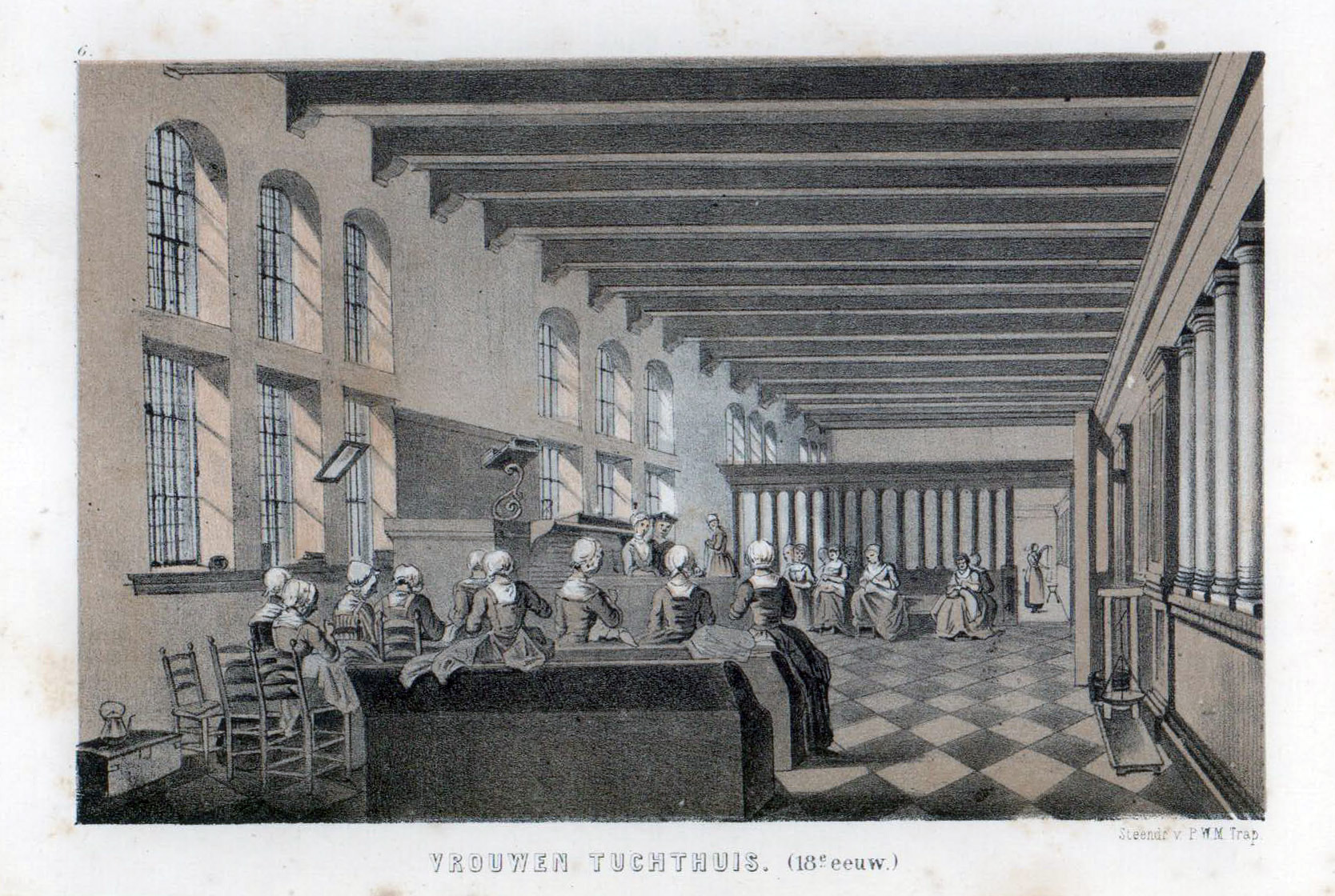 Women's workhouse (18th century). Lithograph by P.M.W. Trap